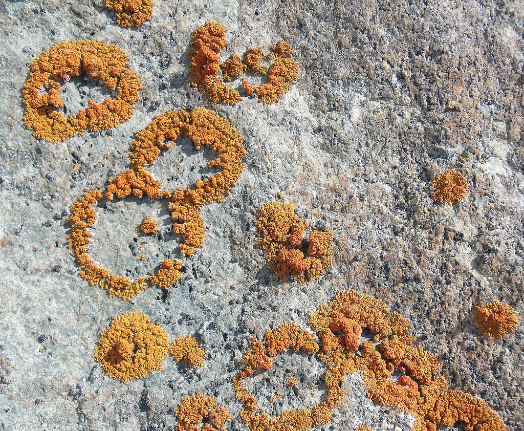 Crater Creatures: Pumpkin-orange lichen on granite. Camera: Fujifilm FinePix J250 License on Flickr (2011-01-28): CC-BY-2.0 Flickr tags: nature, lichen, granite, rock, orange, subarcticmike, tundra, Nunavut